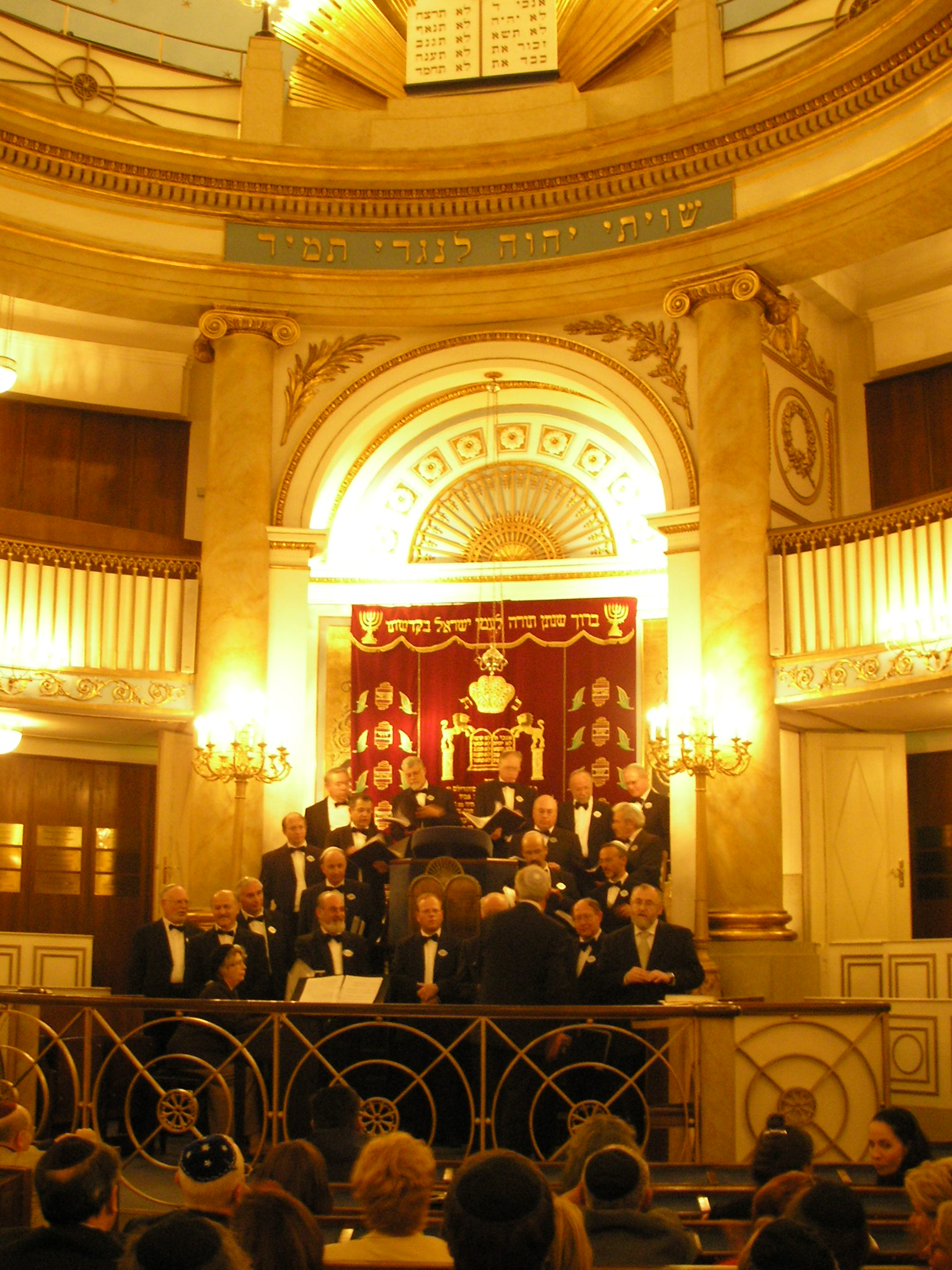 Image of the interior of the Stadttempel in Vienna.